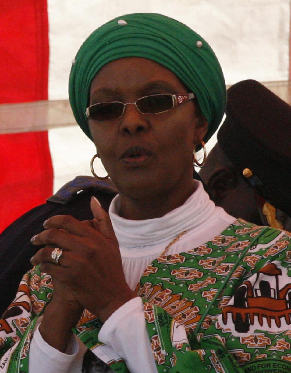 Grace Mugabe with Robert Mugabe